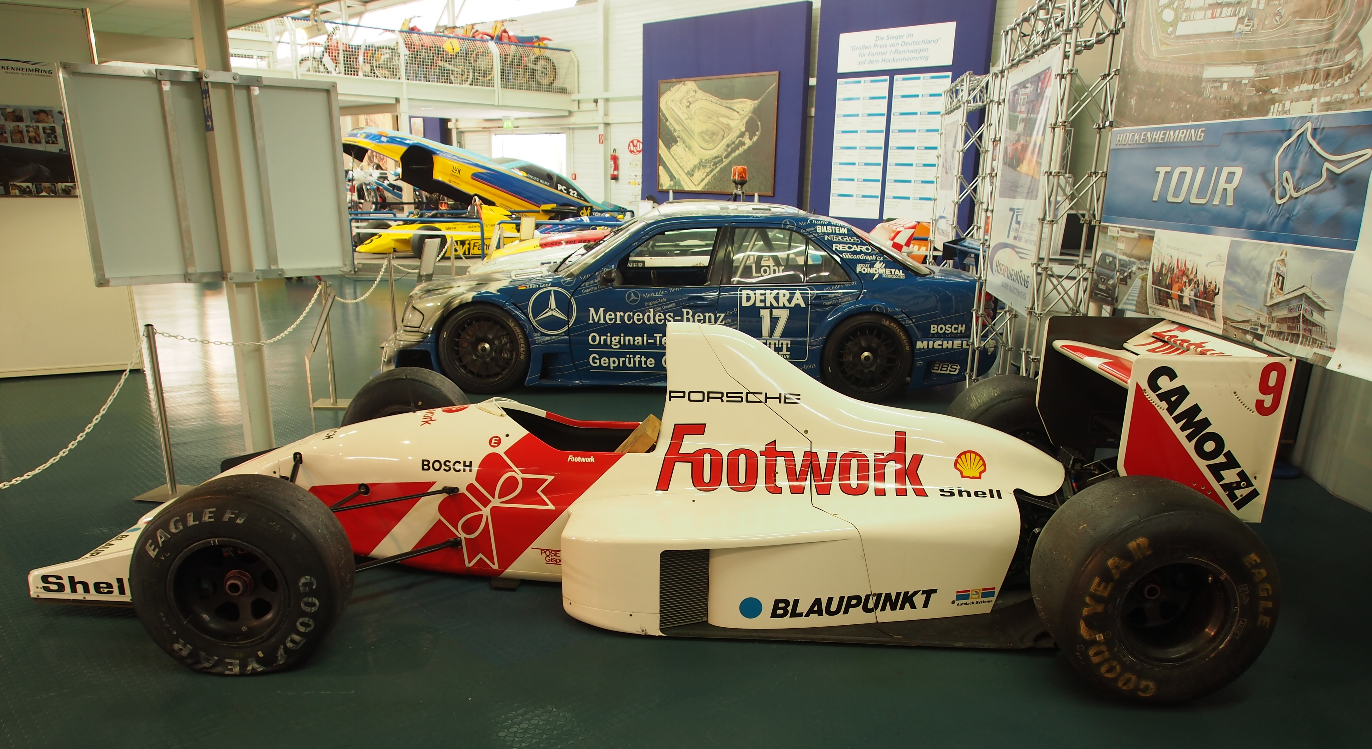 Photographed at the Motor-Sport-Museum am Hockenheimring, Germany.